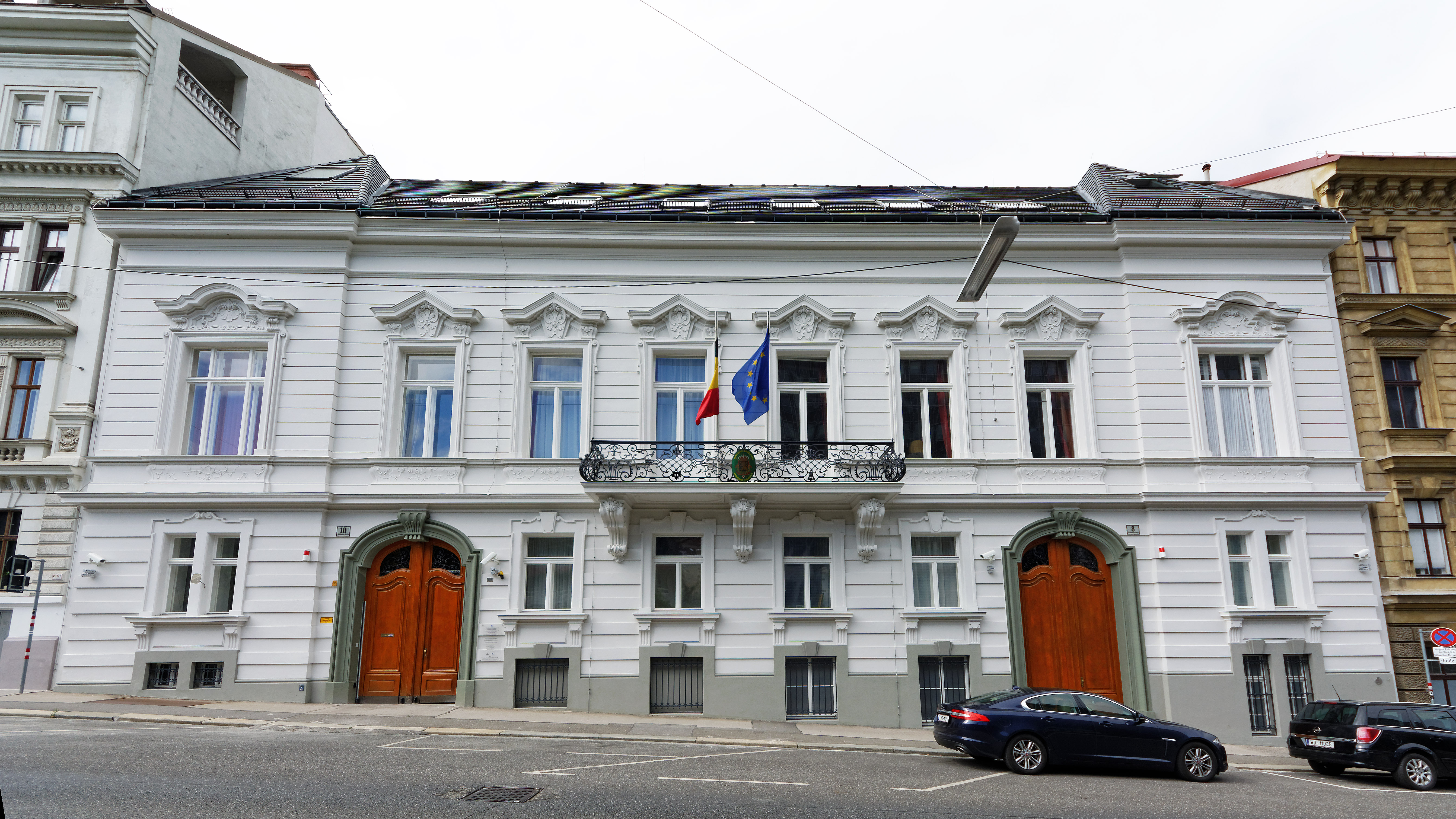 Palace Hohenlohe-Bartenstein - now Embassy of Belgium - at Wieden, Vienna, Austria